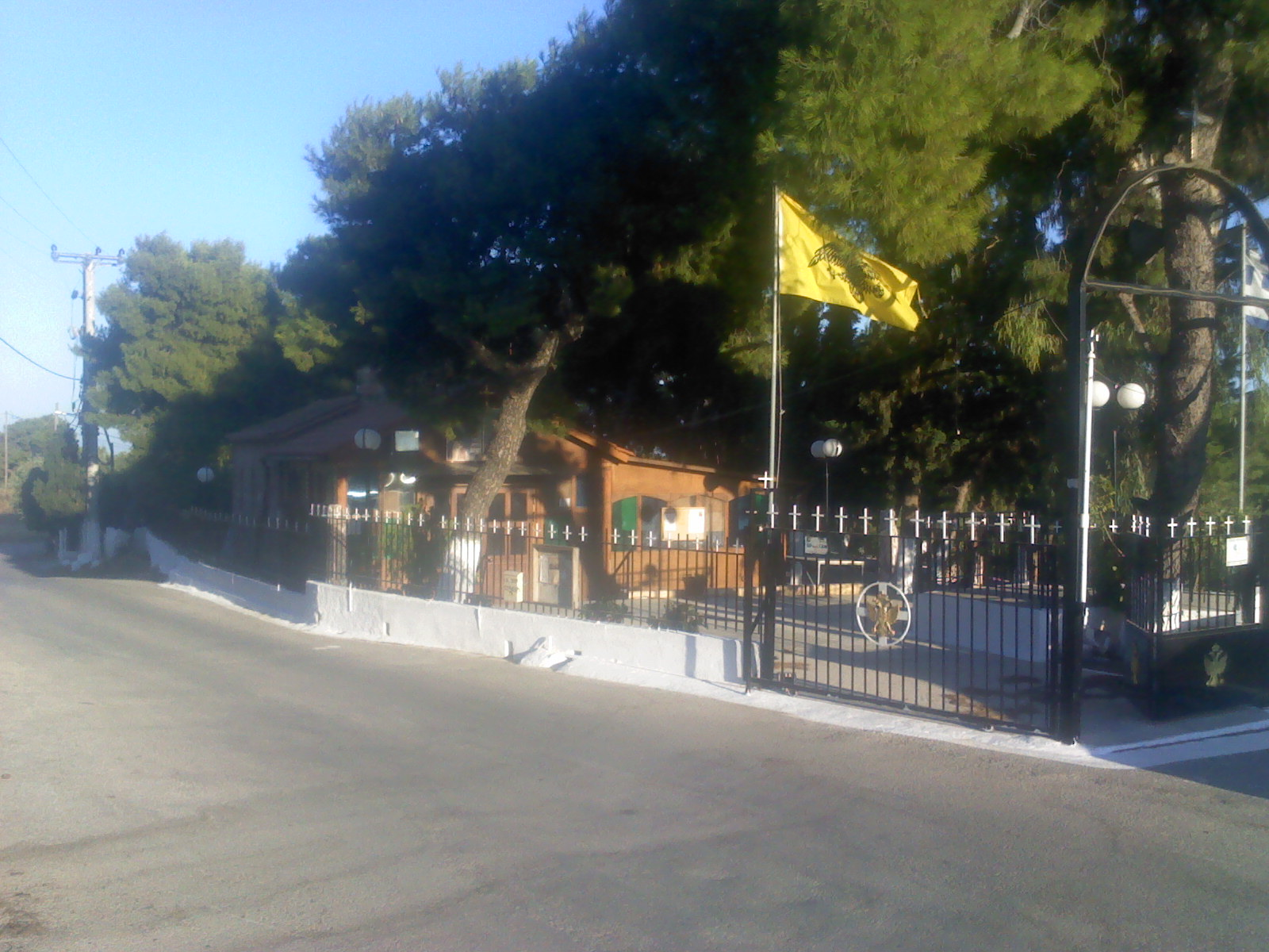 Agios Serafeim Artemida